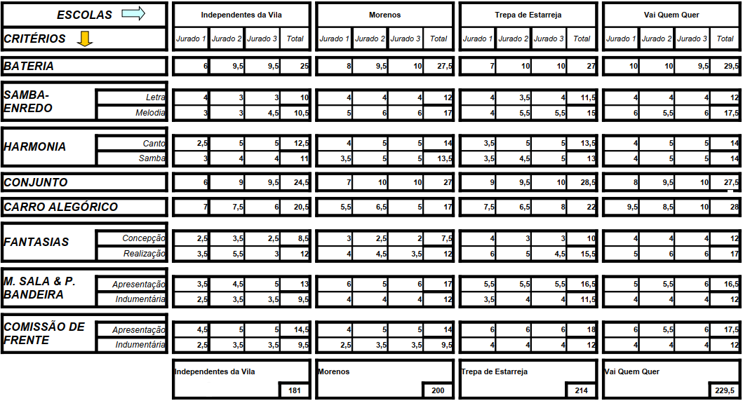 Results of Carnival of Estarreja in 2009